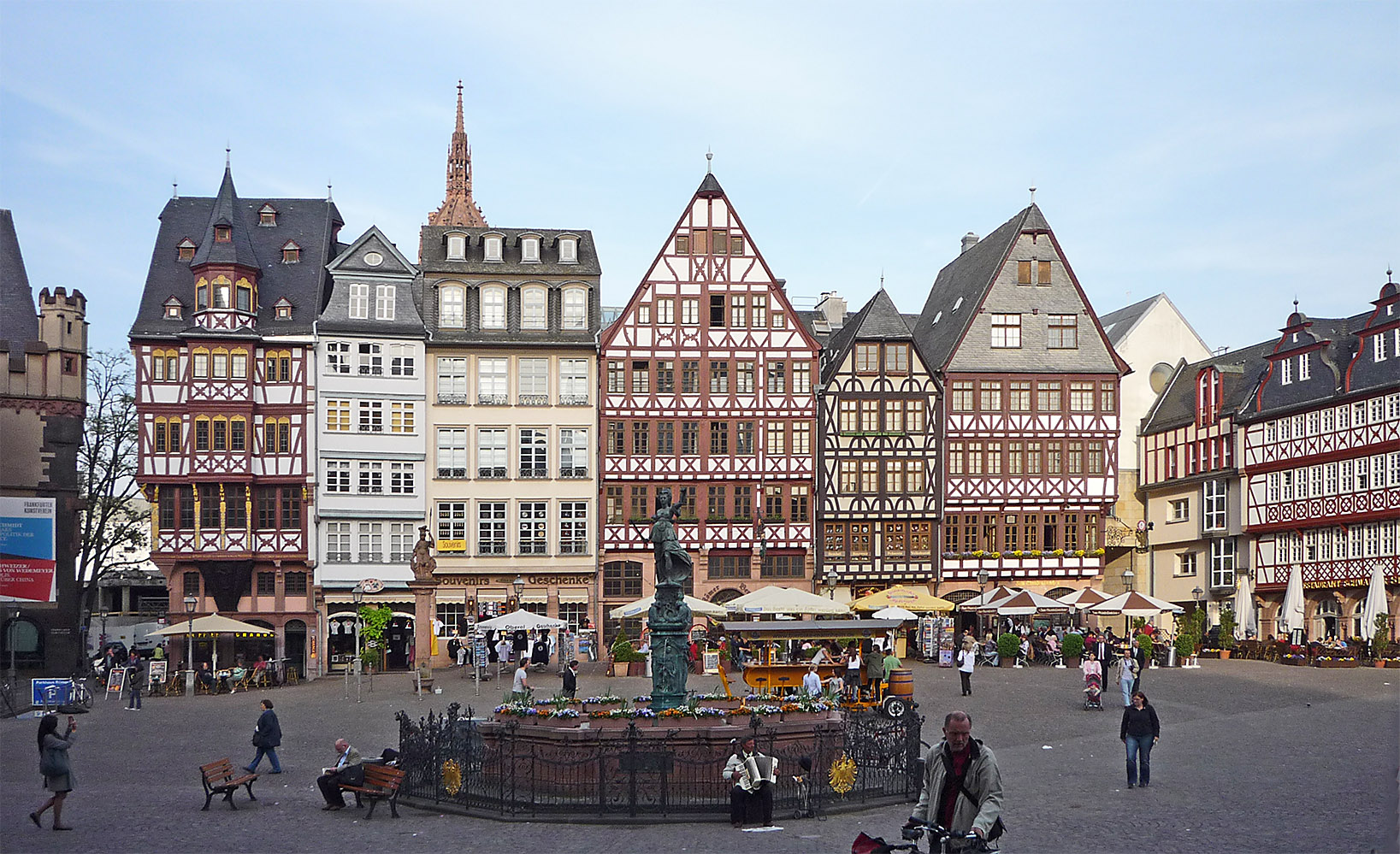 Frankfurt on the Main: Ostzeile (Eastern Row) at the Römerberg and fountain of justice (Gerechtigskeitsbrunnen), historically correct actually Samstagsberg as seen from the west.